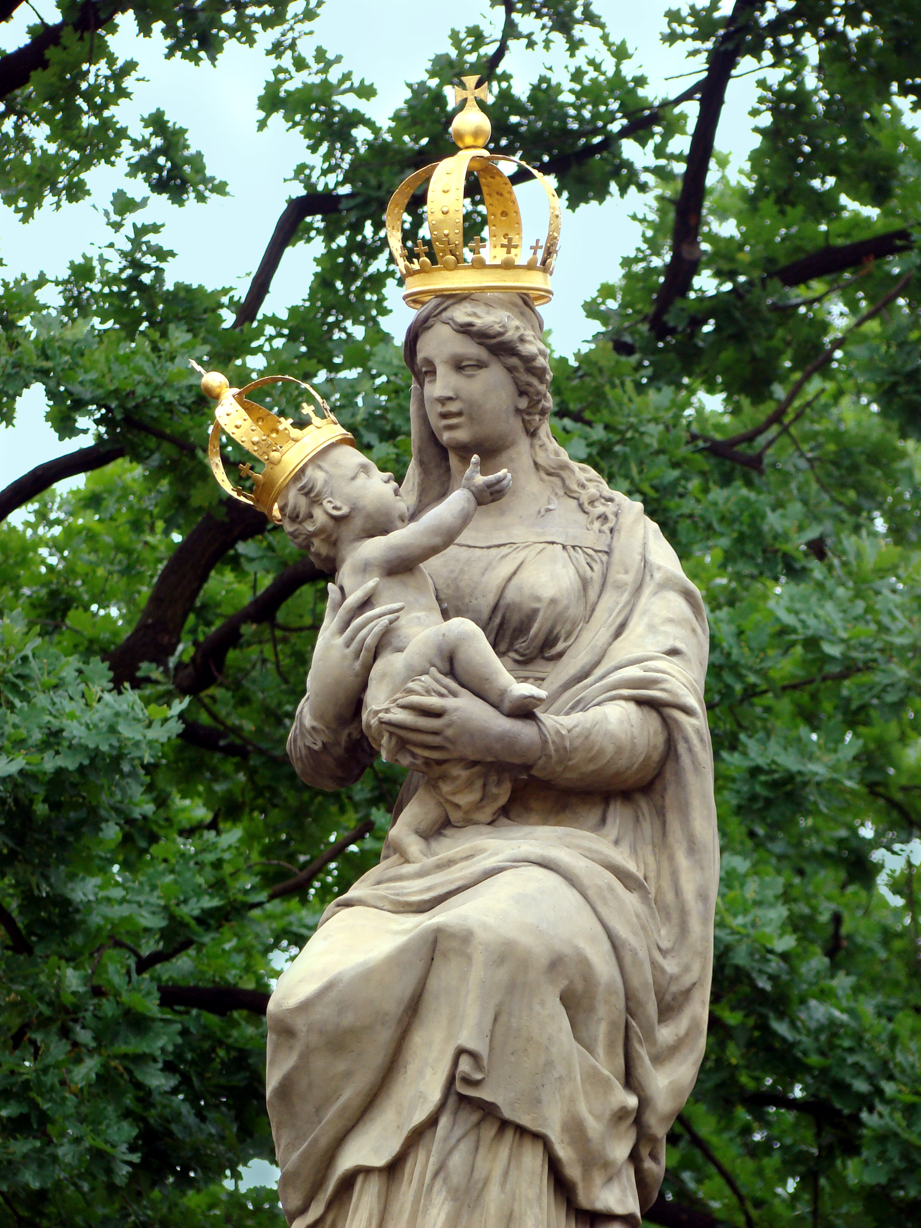 Passauer Madonna monument in Warsaw, Krakowskie Przedmieście street